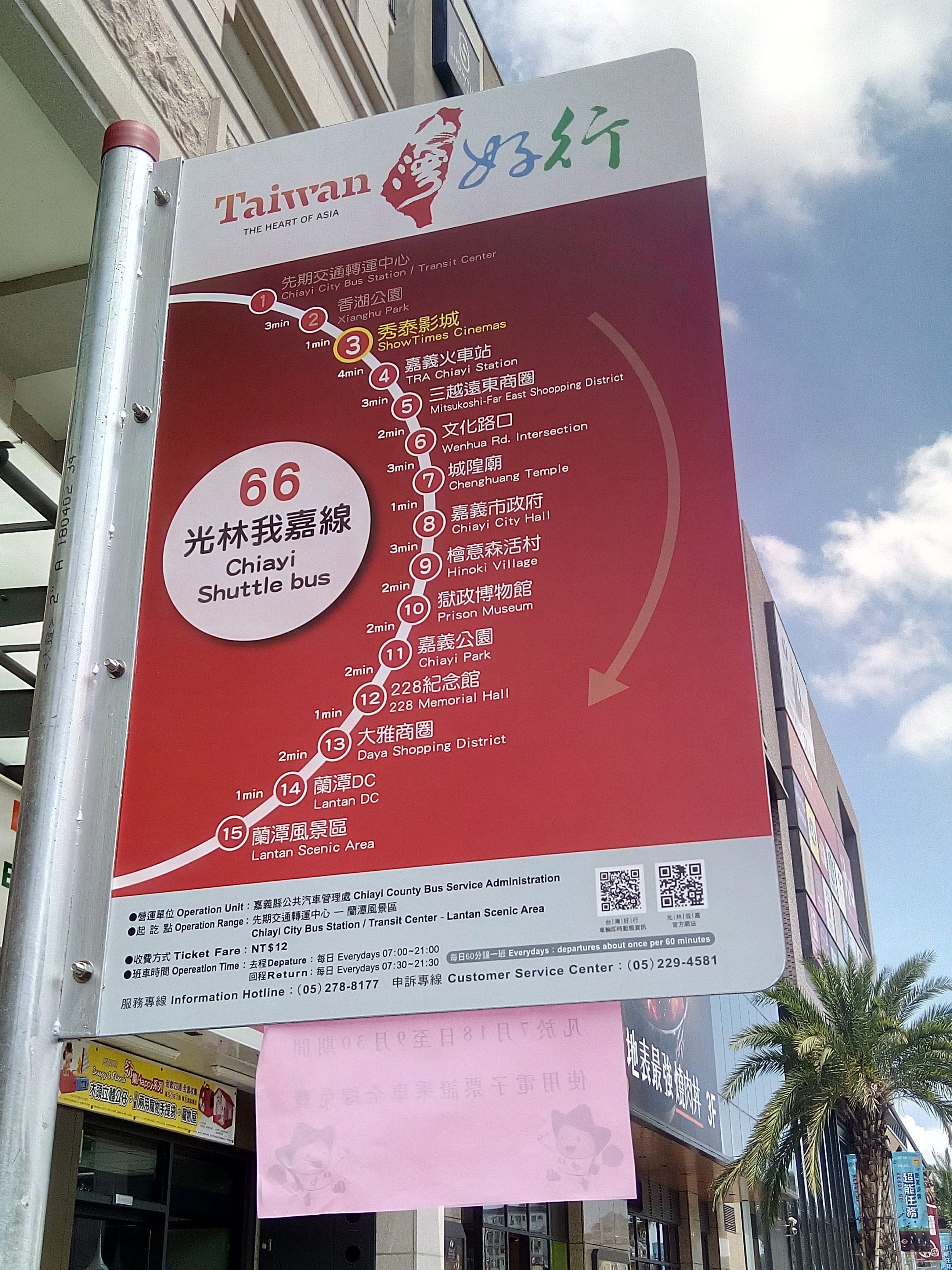 Show Times Cinemas bus stop (route map Ver.)